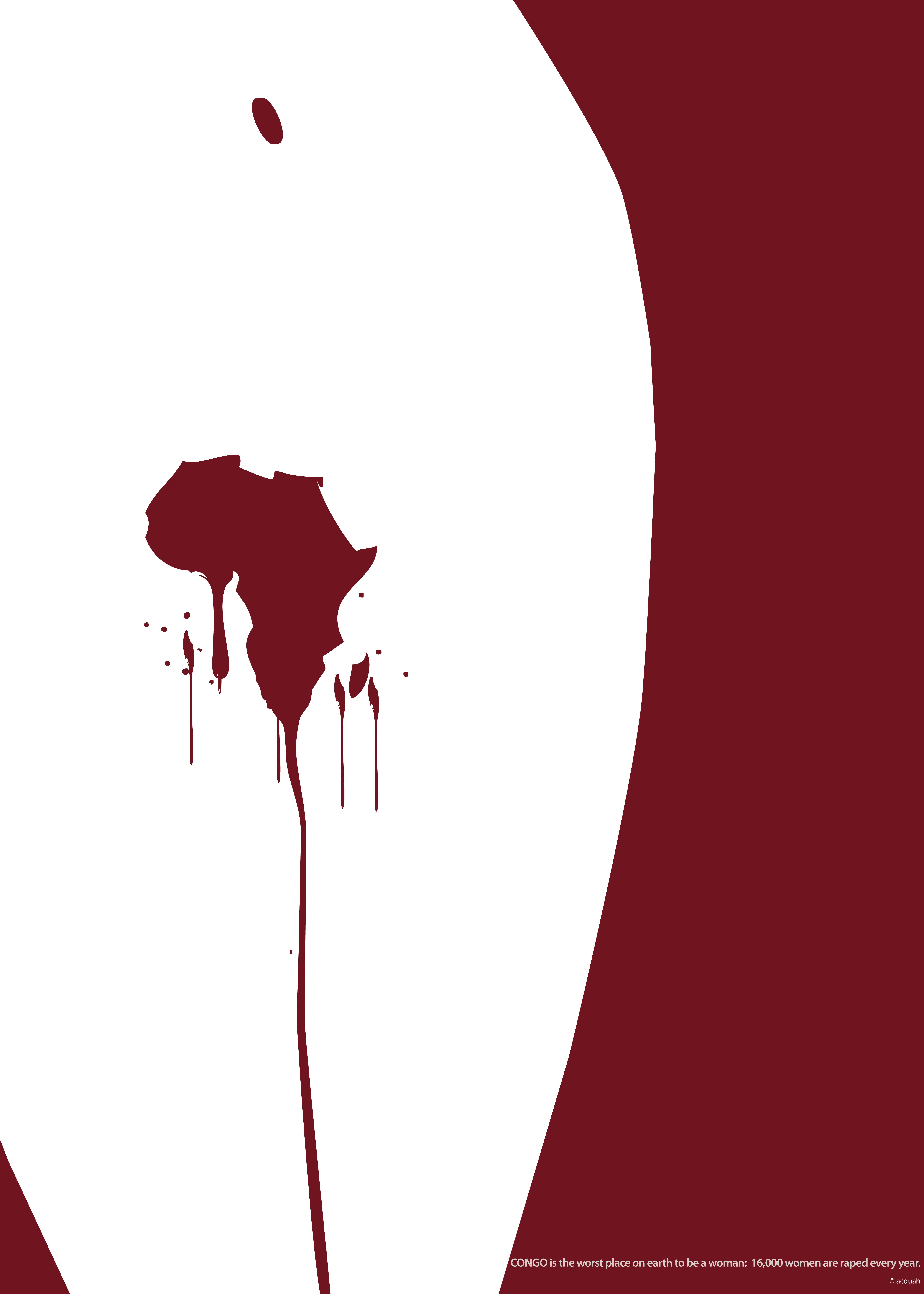 The poster was one of many posters being exhibited at "Women’s Rights Are Human Rights: International Posters on Gender-‐based Inequality, Violence and Discrimination." curated by Elizabeth Resnick. The poster was inspired by an article about Rape in Congo written by Congolese Journalist Saleh Mwanamilongo. The poster was first posted to Facebook on 30th May, 2011.